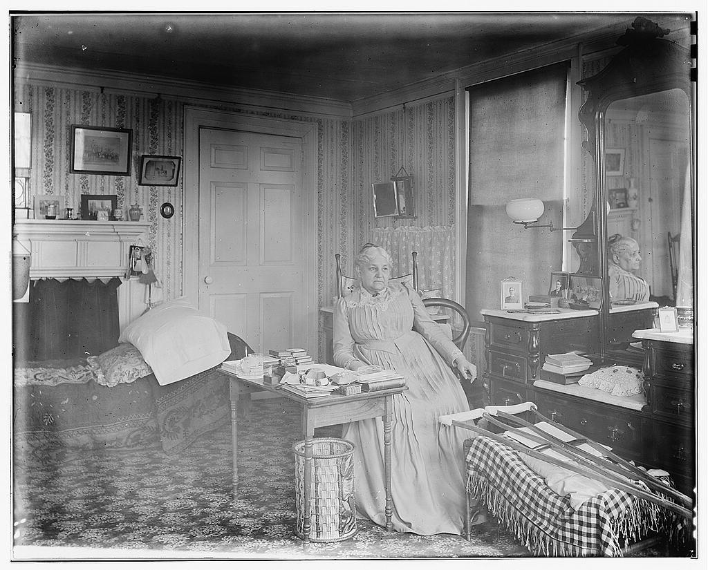 Portrait of an elderly woman * About This Item * Obtaining Copies * Access to Original * Title: [Portrait of an elderly woman] * Creator(s): Currier, Charles Henry, 1851-1938, photographer * Date Created/Published: [between 1890 and 1900] * Medium: 1 photographic print. * Summary: Elderly woman, full-length portrait, seated in chair, in bedroom, with crutches on low piece of furniture in front of her. * Reproduction Number: LC-C801-41 (b&w film copy neg.) LC-DIG-ppmsca-01945 (scan from b&w film copy neg.) LC-DIG-ppmsca-02967 (scan from adjusted print from b&w film copy neg. in Publishing Office) * Rights Advisory: No known restrictions on publication. * Call Number: LOT 11337-2 [item] [P&P] * Repository: Library of Congress Prints and Photographs Division Washington, D.C. 20540 USA * Notes: o Charles Currier Collection. o Published in: American women : a Library of Congress guide for the study of women's history and culture in the United States / edited by Sheridan Harvey ... [et al.]. Washington : Library of Congress, 2001, p. 205. * Subjects: o Older people--1890-1900. o Women--1890-1900. * Format: o Photographic prints--1890-1900. o Portrait photographs--1890-1900.